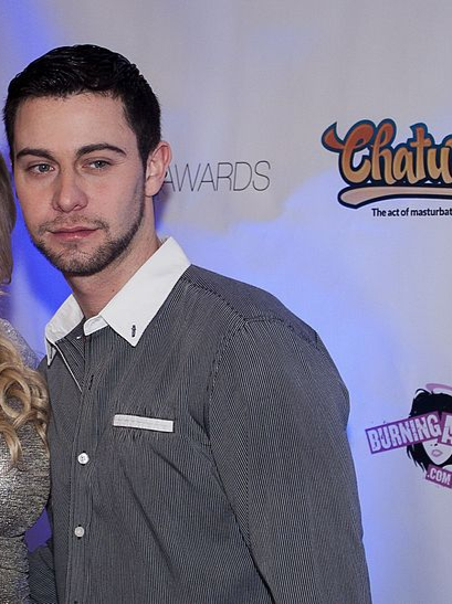 Exxxotica2016_0125bas